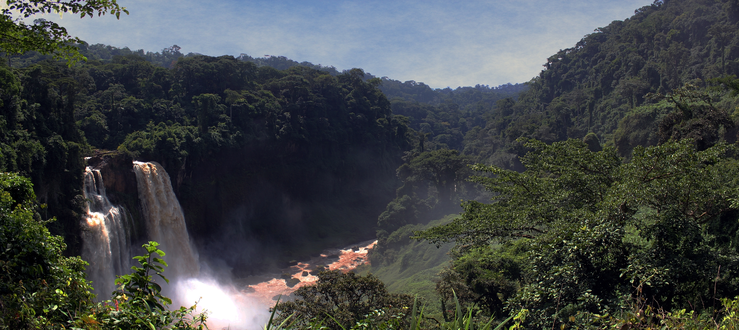 Ekom falls of the Nkam river near Nkongsamba / Cameroon